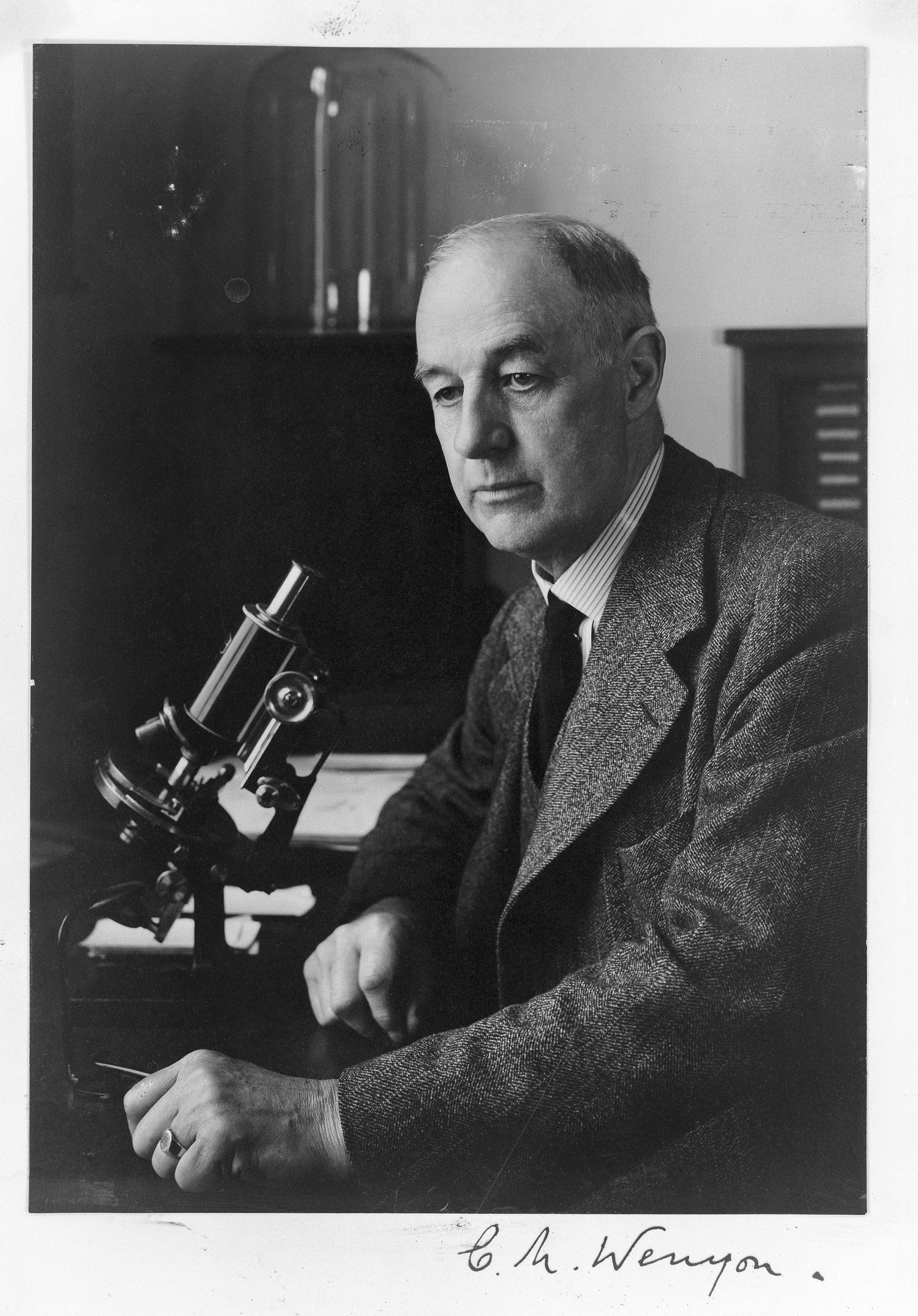 Portrait of C.M. Wenyon, anon., n.d. Wellcome Images Keywords: Charles Morley Wenyon